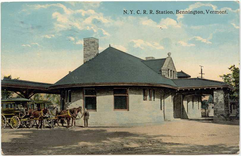 Postcard of Bennington station, postmarked 1913. The postcard saying ""N.Y.C.R.R. Station" dates it to no later than 1911, when the New Haven Railroad gained control of the Rutland Railroad from the New York Central.